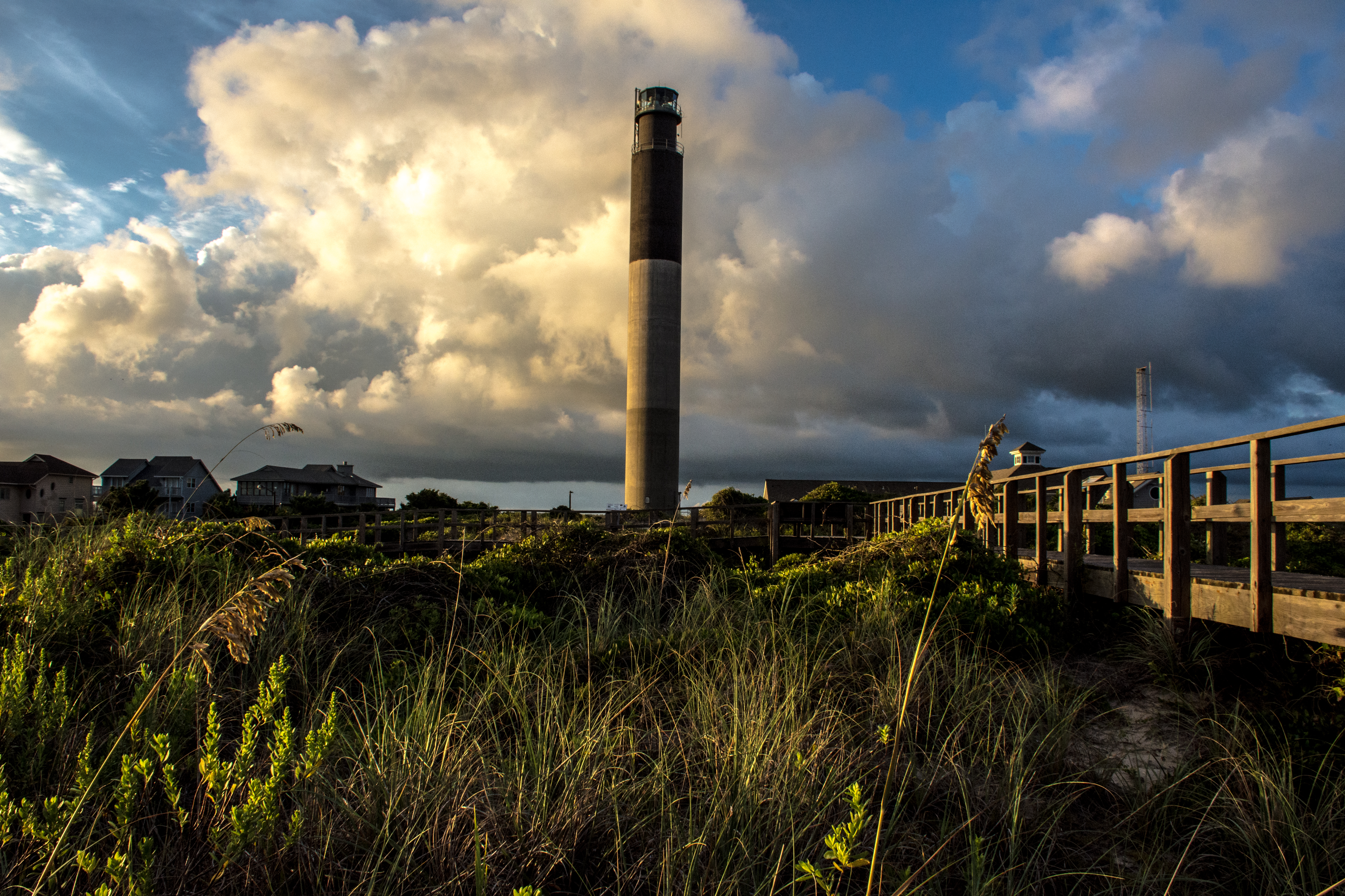 This is a picture of Oak Island Light house at Caswell beach North Carolina.